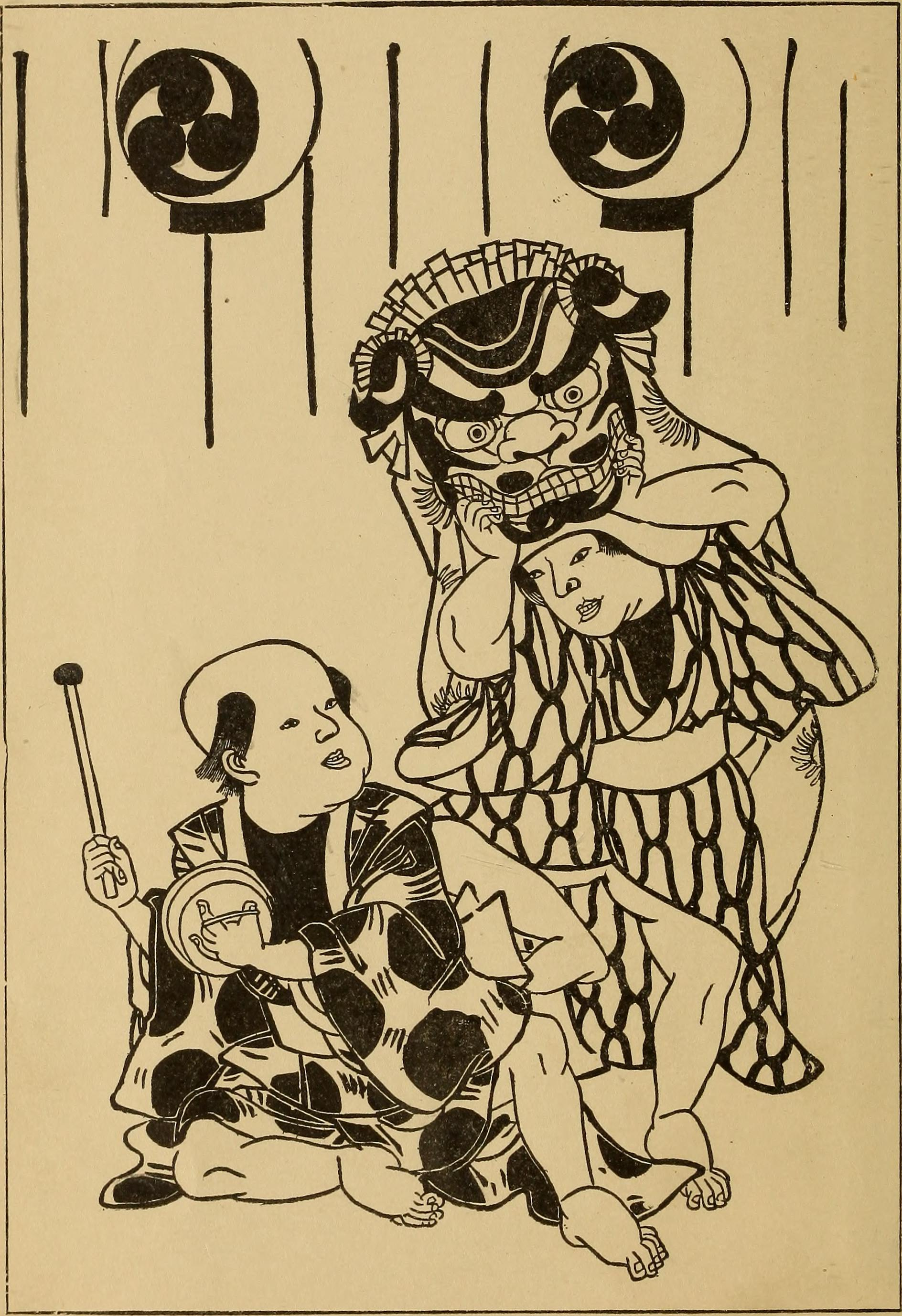 Title: Child-life in Japan and Japanese child stories Year: 1901 (1900s) Authors: Ayrton, Matilda Chaplin, Mrs. 1846-1883 Griffis, William Elliot, 1843-1928, ed Subjects: Children Fairy tales Publisher: Boston and New York, D.C. Heath & co. Text Appearing Before Image: ' Text Appearing After Image: The Lion of Korea. CHILD-LIFE IN JAPAN AHU JAPANESE CHILD STORIES BY MRS. M. CHAPLIN AYRTON II EDITED WITH INTRODUCTION AND NOTES BYWILLIAM ELLIOT GRIFFIS, L.H.D. Author of The Mikados Empire and Japanese Fairy World IV/TH MANY fLLUSTRATIONS, INCLUDING SEVEN FULL PAGE PICTURES DRAWN AND ENGRAVED BY JAPANESE ARTISTS D. C. HEATH & CO., PUBLISHERSBOSTON NEW YORK CHICAGO DSsas,A37 Copyright, 1901, By D. C. Heath & Co.1 D 2 ts-xiJr tikr^) PREFACE. Over a quarter of a century ago, while engaged inintroducing the American public school system intoJapan, I became acquainted in Tokio with Mrs. MatildaChaplin Ayrton, the author of Child-Life in Japan.This highly accomplished lady was a graduate of Edin-burgh University, and had obtained the degrees ofBachelor of Letters and Bachelor of Sciences, besidesstudying medicine in Paris. She had married ProfessorWilliam Edward Ayrton, the electric engineer and in-ventor, then connected with the Imperial College ofEngineering of Japan, and sincechildlifeinjapan01ayrt